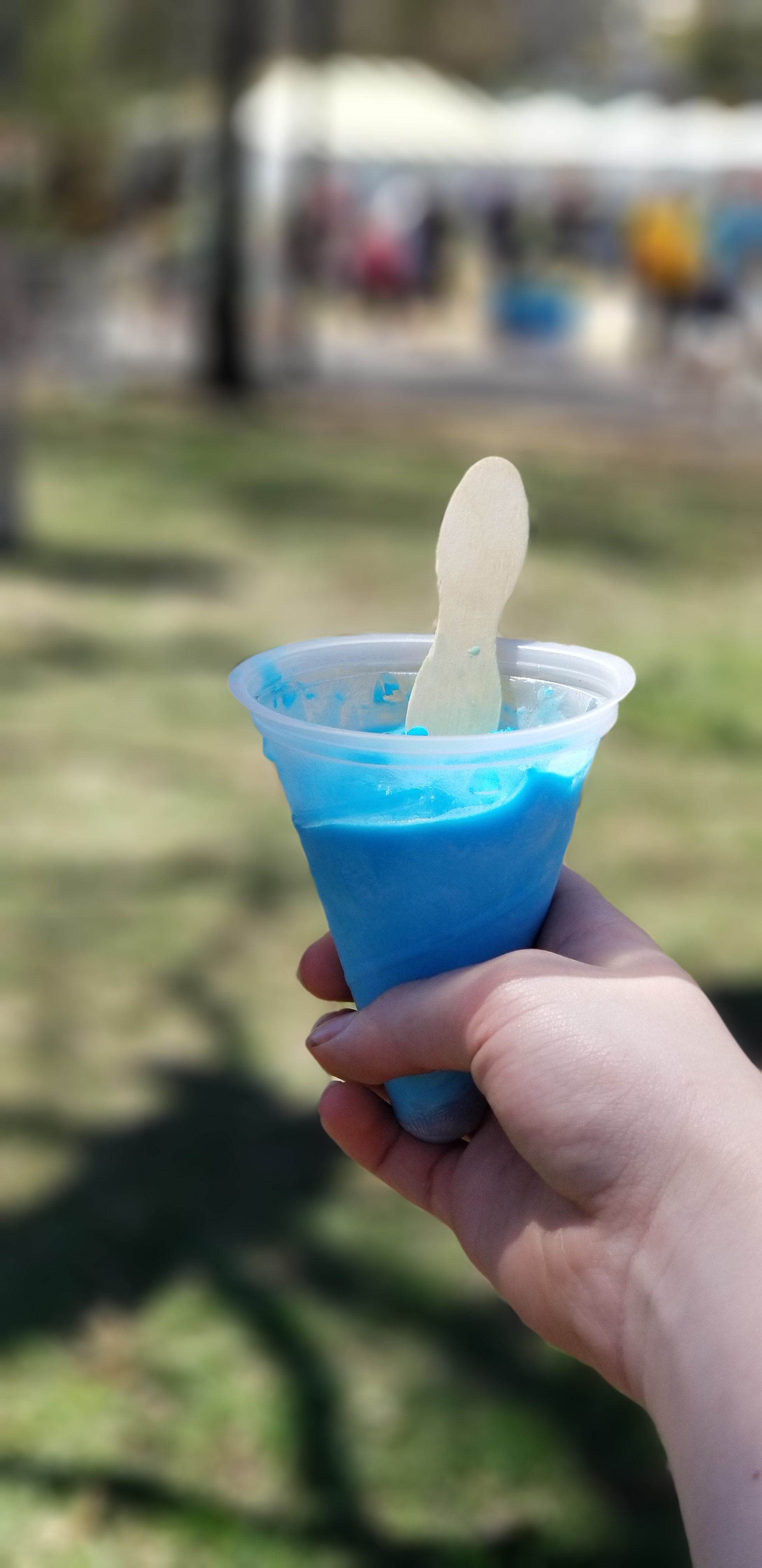 A very yummy treat consisting of a sherbet-like frozen dessert. Each one comes with two gumballs too!